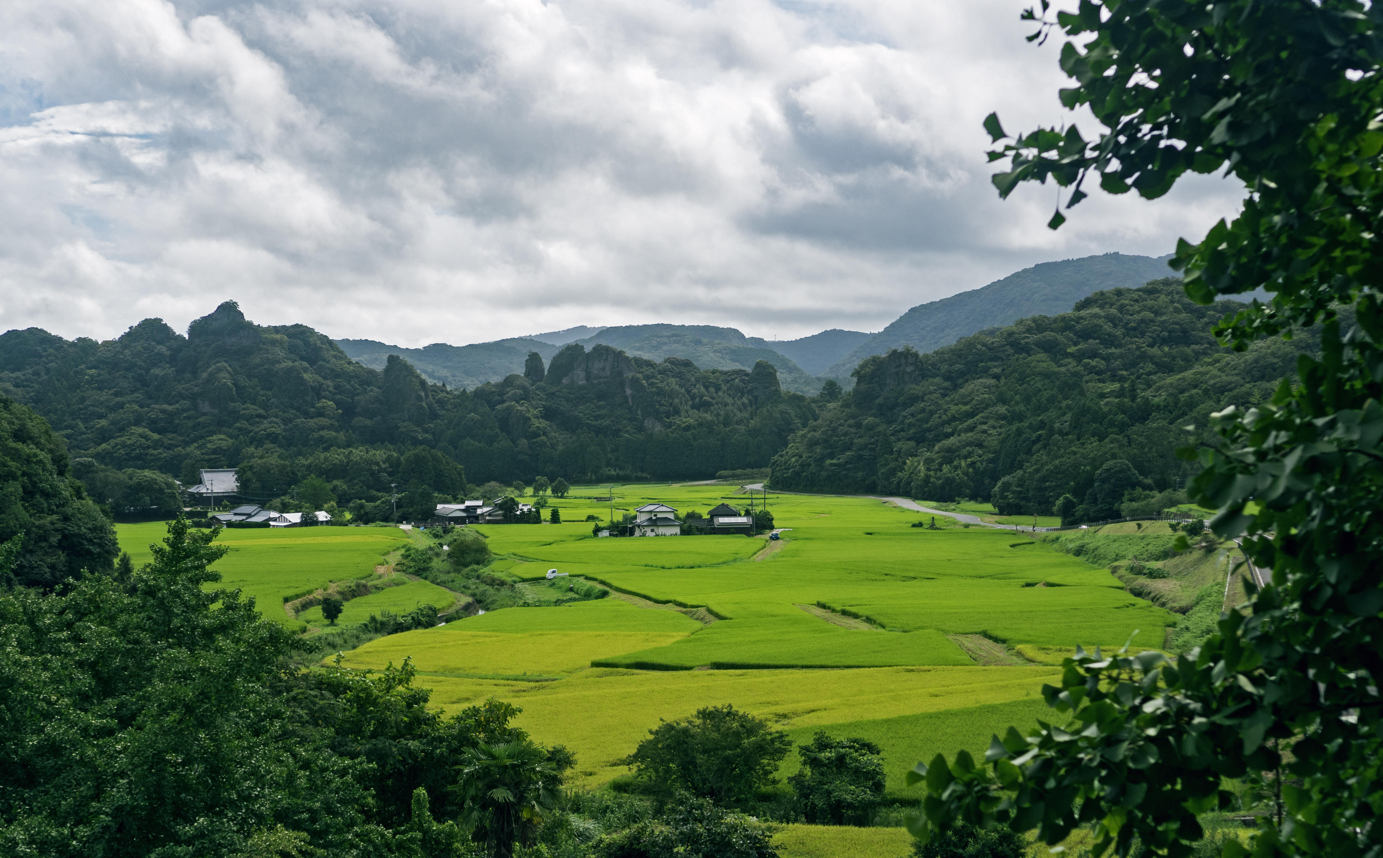 Tashibunosho